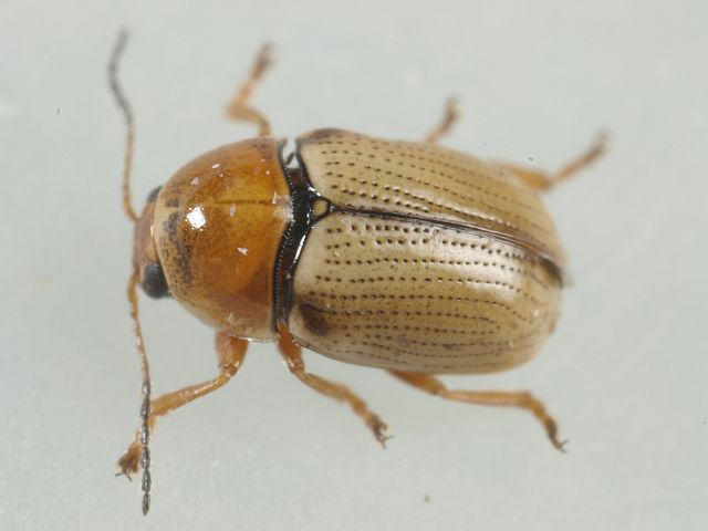 Cryptocephalus fulvus Location: The Netherlands - Zandvoort (strand zuid)